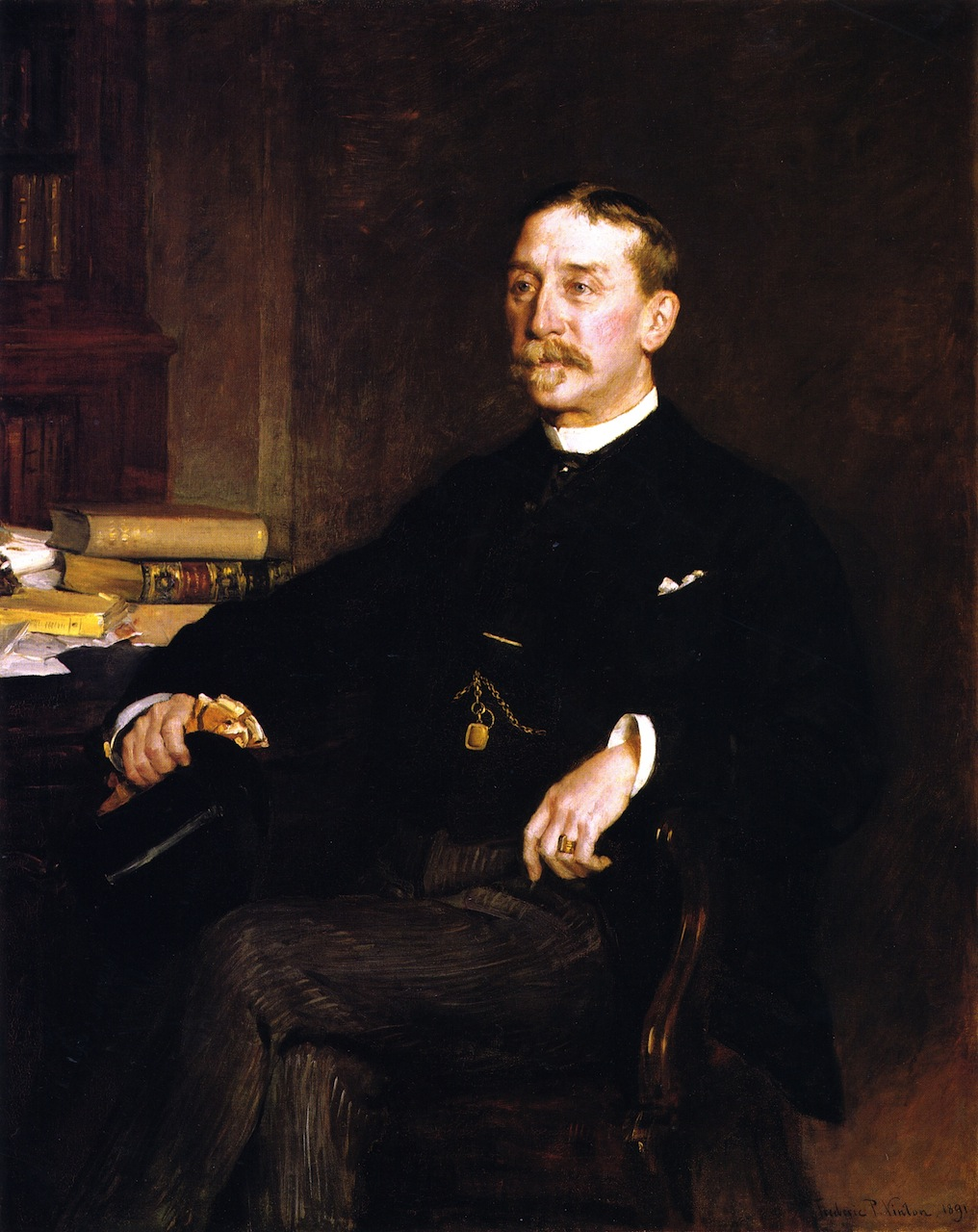 portrait of museum's founderv